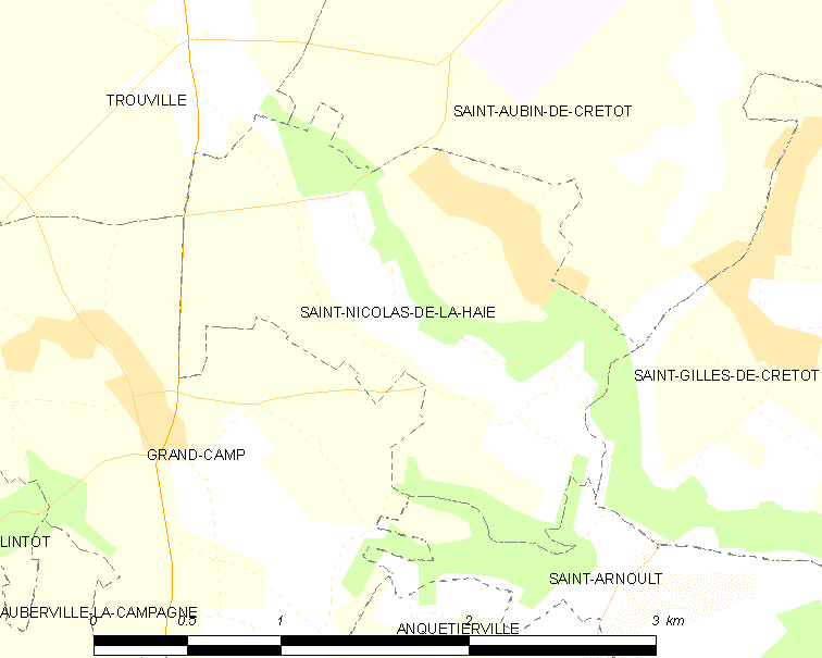 Map of French municipality Saint-Nicolas-de-la-Haie